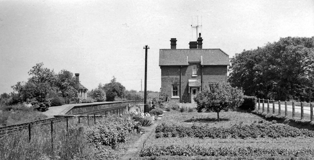 Bottisham & Lode Station (converted?). View ENE, towards Fordham and Mildenhall; ex-GER Cambridge - Fordham - Mildenhall branch line. This station - which was nowhere near Bottisham - had been closed (and the branch service withdrawn) on 18/6/62, but it was not closed to freight until 13/7/64 when the line was finally closed. It looks as if someone had already in 1963 acquired the property and made a pleasant garden.